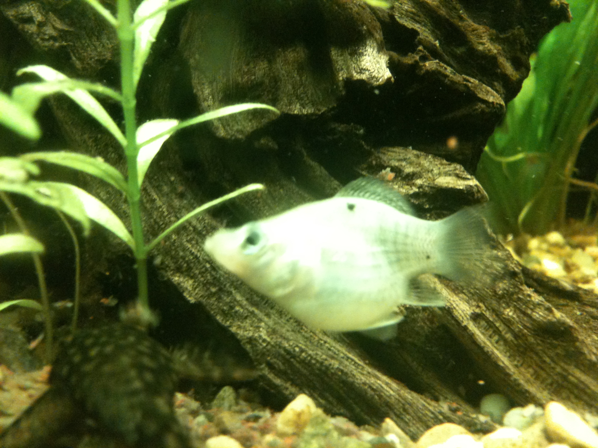 Male of Molly Balloon